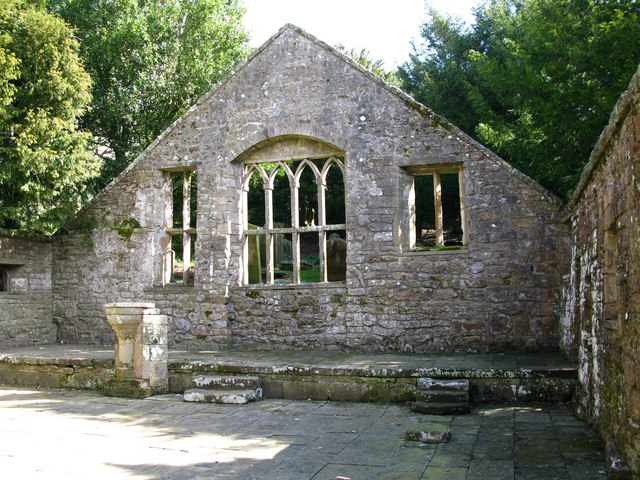 Inside the nave of the ruined former church of St Mary The Virgin, Pateley Bridge, North Yorkshire, England, looking east